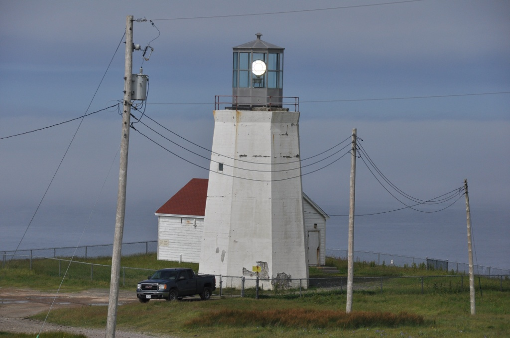 Cape St. Mary's Light Tower, St. Bride's, Newfoundland.